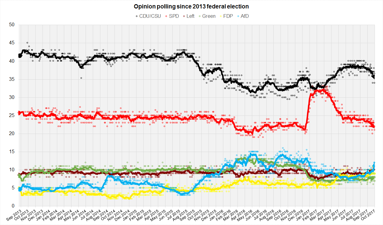 The latest opinion polls available for the next federal German election in 2017. Key: BLACK: CDU/CSU RED: SPD BROWN: Left GREEN: Green YELLOW: FDP BLUE: AfD